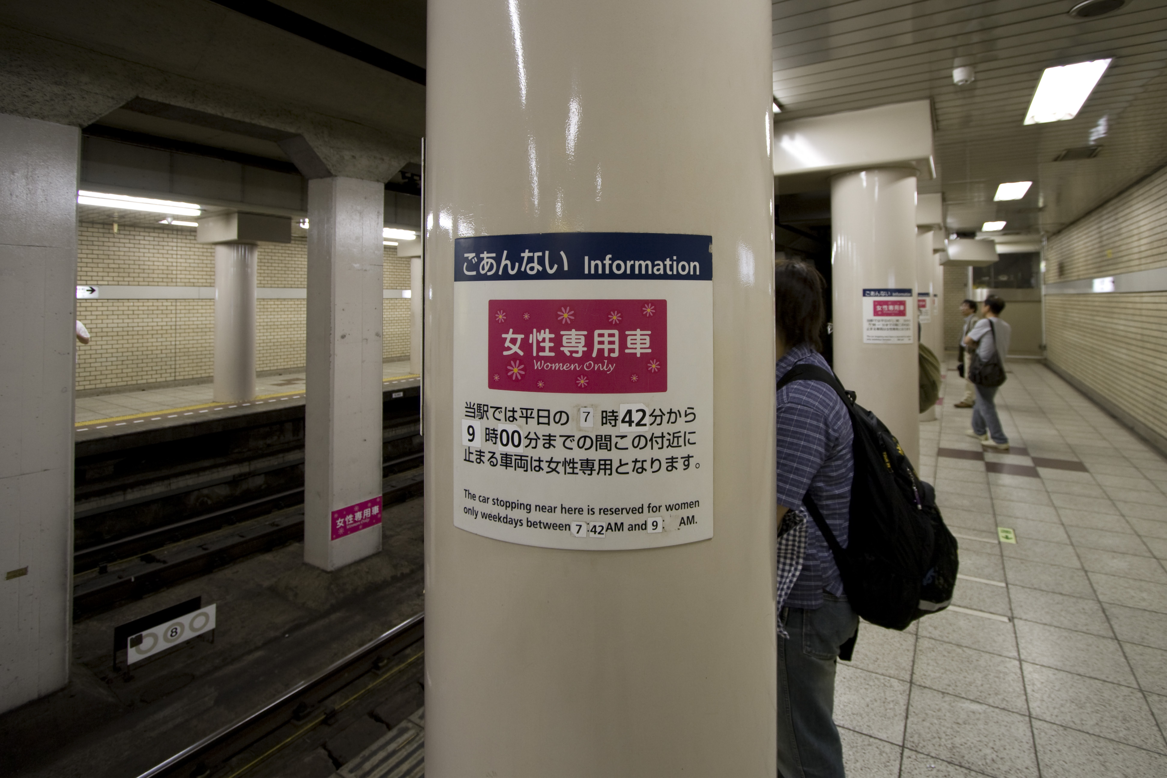 A sign at Ginza Station, Tokyo Metro denoting that this area is for women only during morning peak hours.